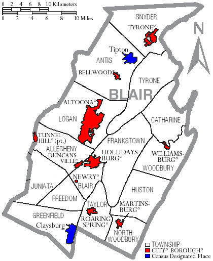 Map of Blair County, Pennsylvania, United States with township and municipal boundaries